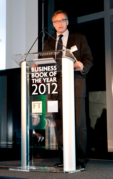 Steve Coll, winner of the Financial Times and Goldman Sachs Business Book of the Year Award 2012 at the award event.